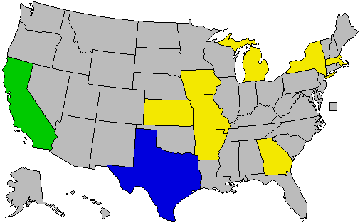 This is a map of the United States. States in gray have no official (administered by NARA) U.S. Presidential libraries, while states in yellow have 1 official (administered by NARA) U.S. Presidential library, states in green have 2, and states in blue have 3.